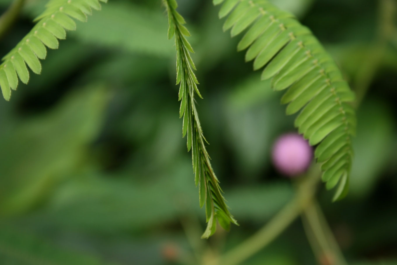 Mimosa pudica: After touching.